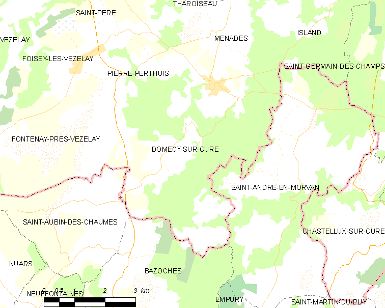 Map of French municipality Domecy-sur-Cure